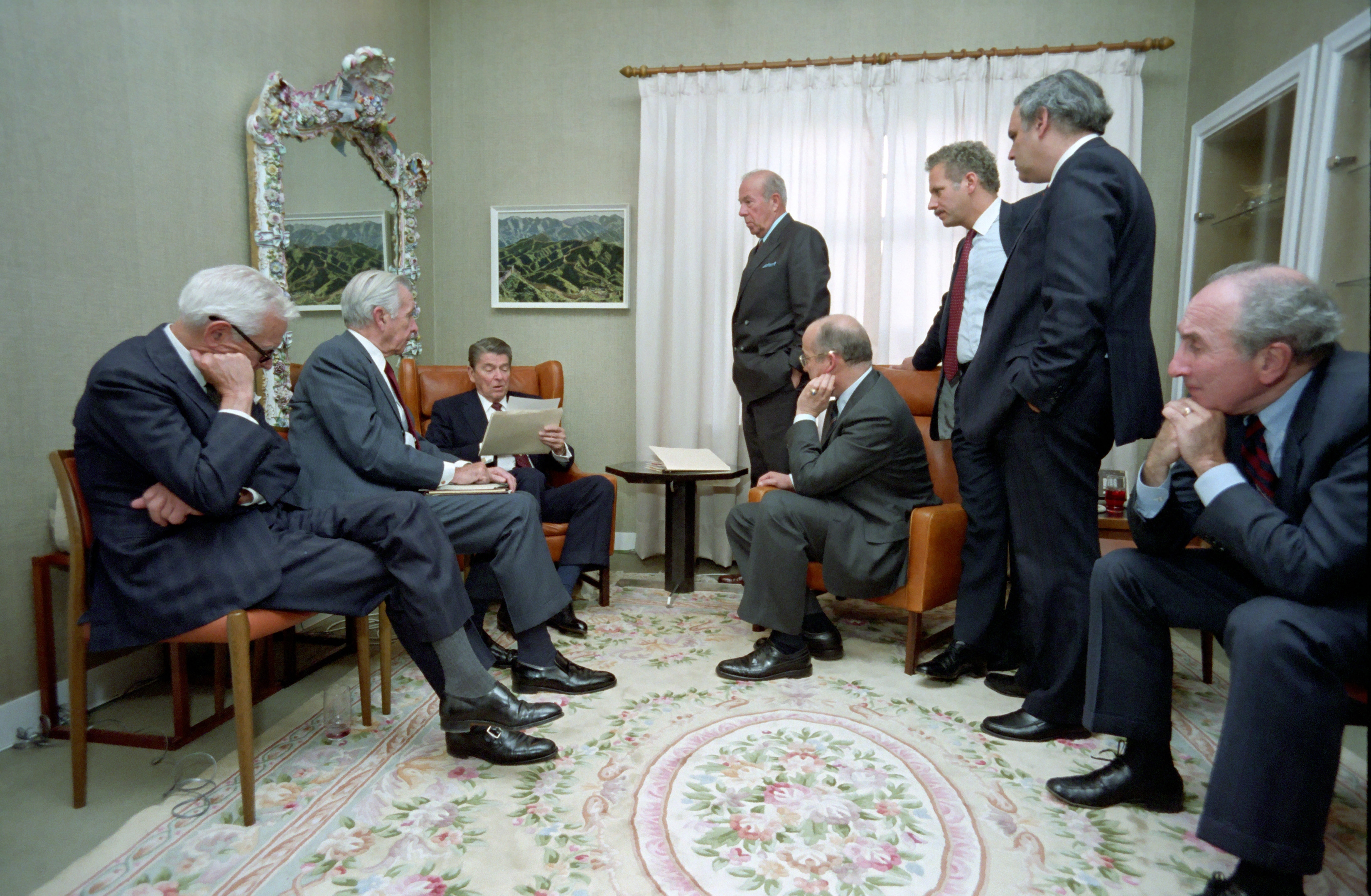 President Reagan in a staff briefing with Paul Nitze, Donald Regan, George Shultz, Ken Adelman, John Poindexter, Richard Perle and Max Kampelman in Hofdi House during the Reykjavik Summit in Iceland. 12/10/86. Courtesy of Ronald Reagan Library